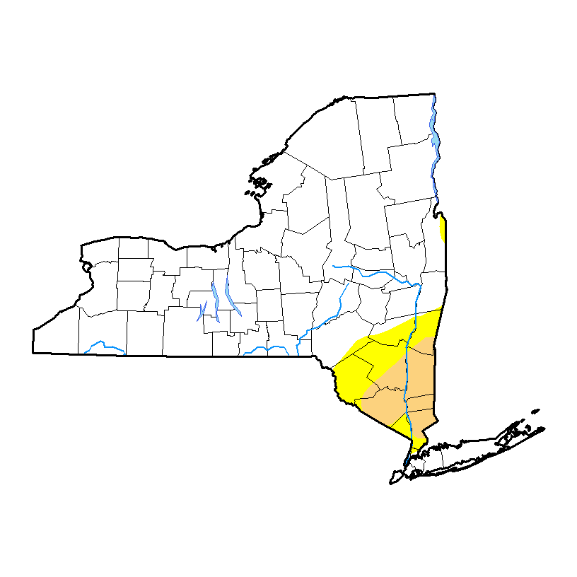 Drought monitor for April 4, released April 6, 2017. End of w:2016 New York drought.